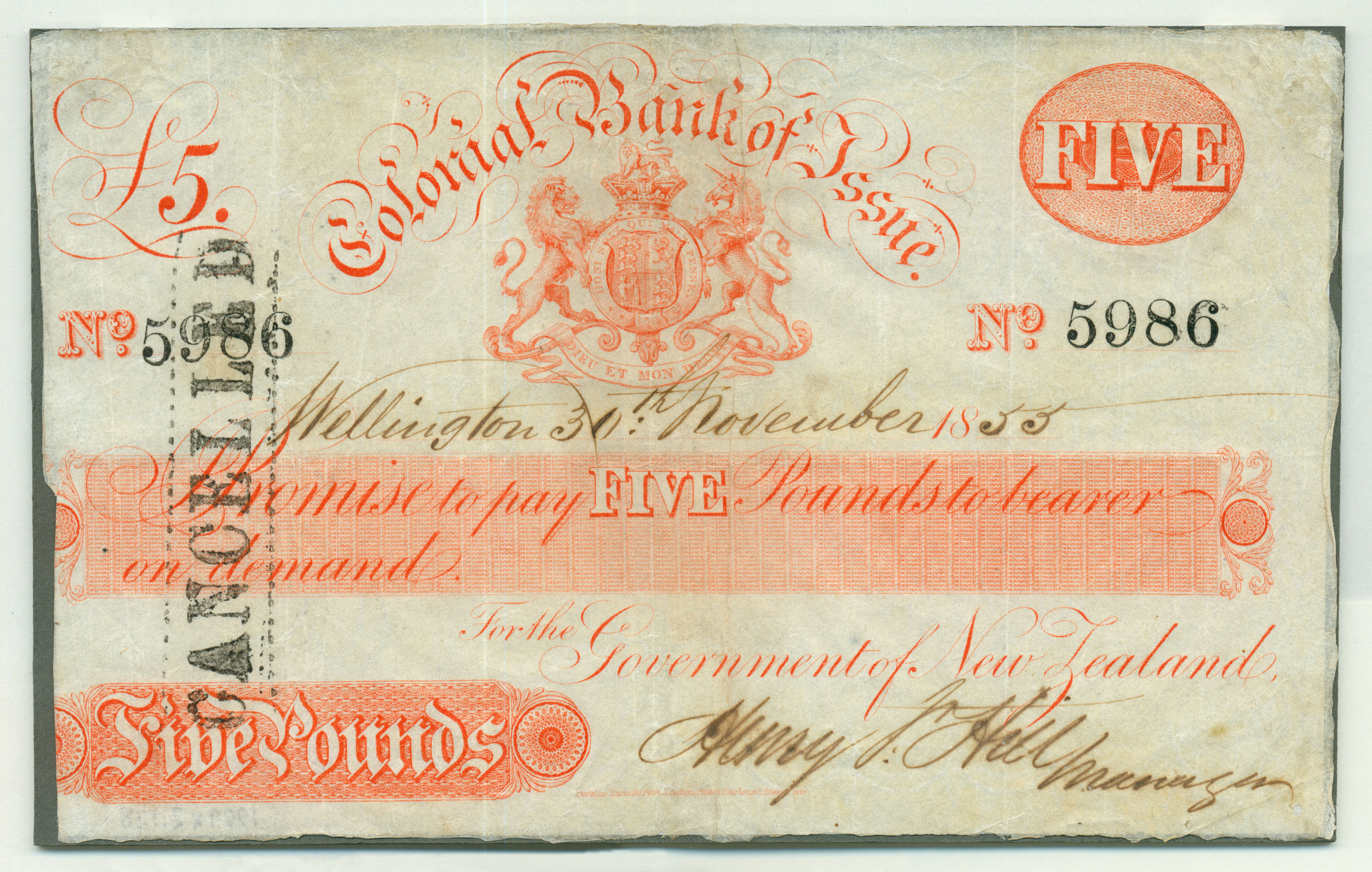 Colonial Bank of Issue for the Government of New Zealand promissory note - 5 pounds - serial no 5986 - Wellington, 30th November 1853 red; printed on paper; overstamped in black- CANCELLED; serial number stamped in black ink- 5986; signed - Henry Hall, Manager